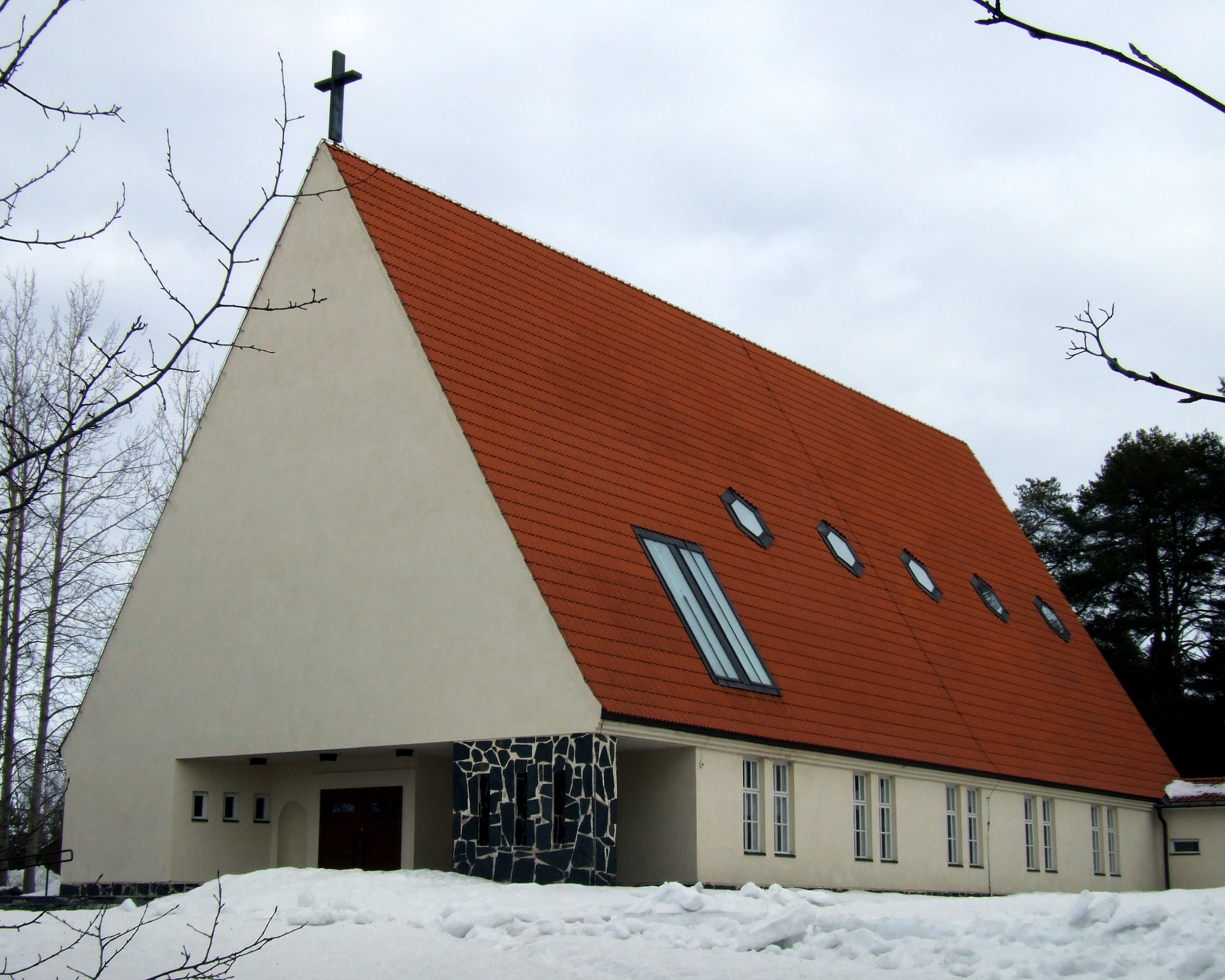 The Church in Ii (Finland) was designed by architects Gustaf Strandberg and Aarne Hytönen and it was completed in 1950.